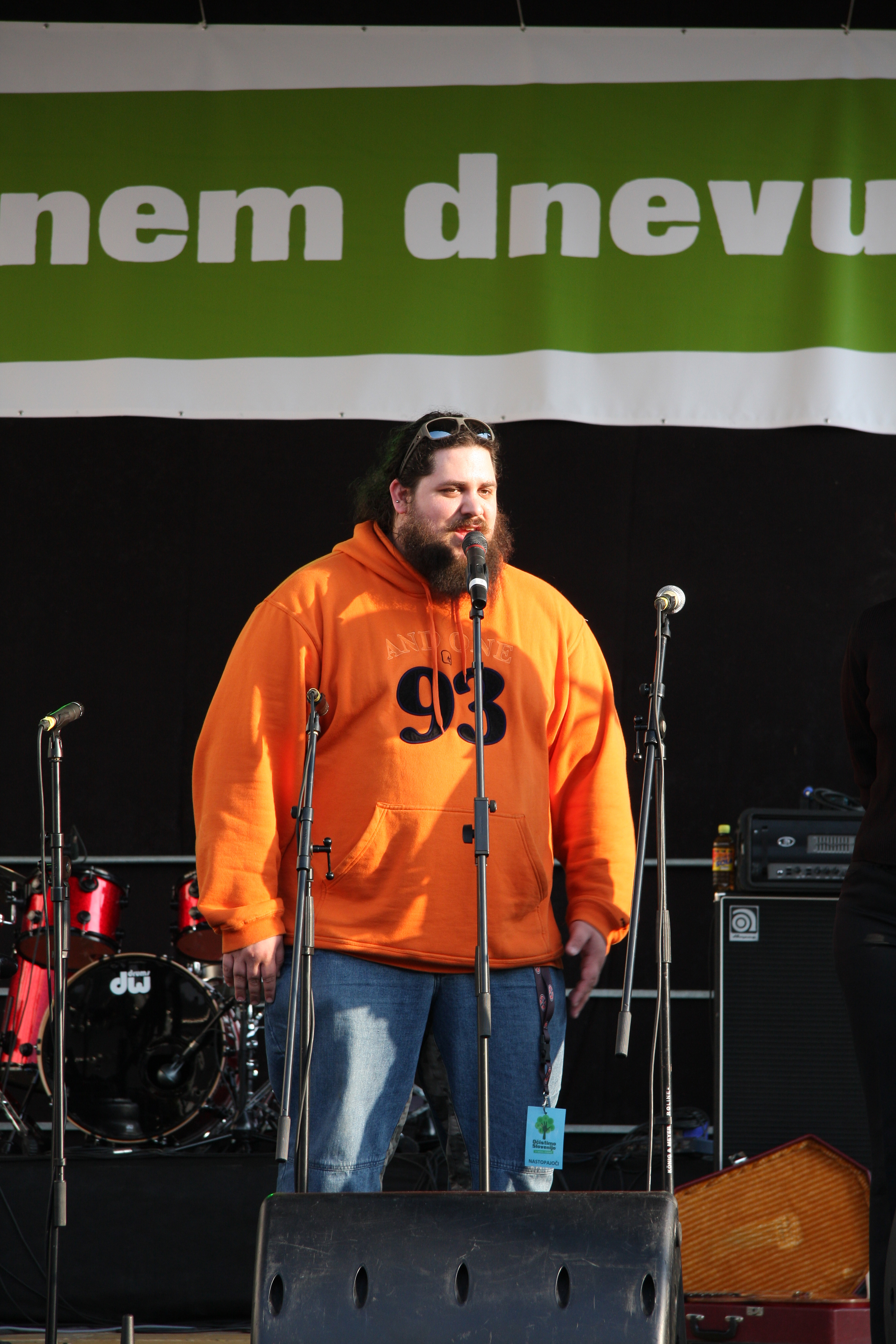 Boštjan Gorenc - Pižama, a stand-up comedian, actor and musician from Slovenia, hosting the follow-up party after "Očistimo Slovenijo v enem dnevu!" event in Ljubljana.